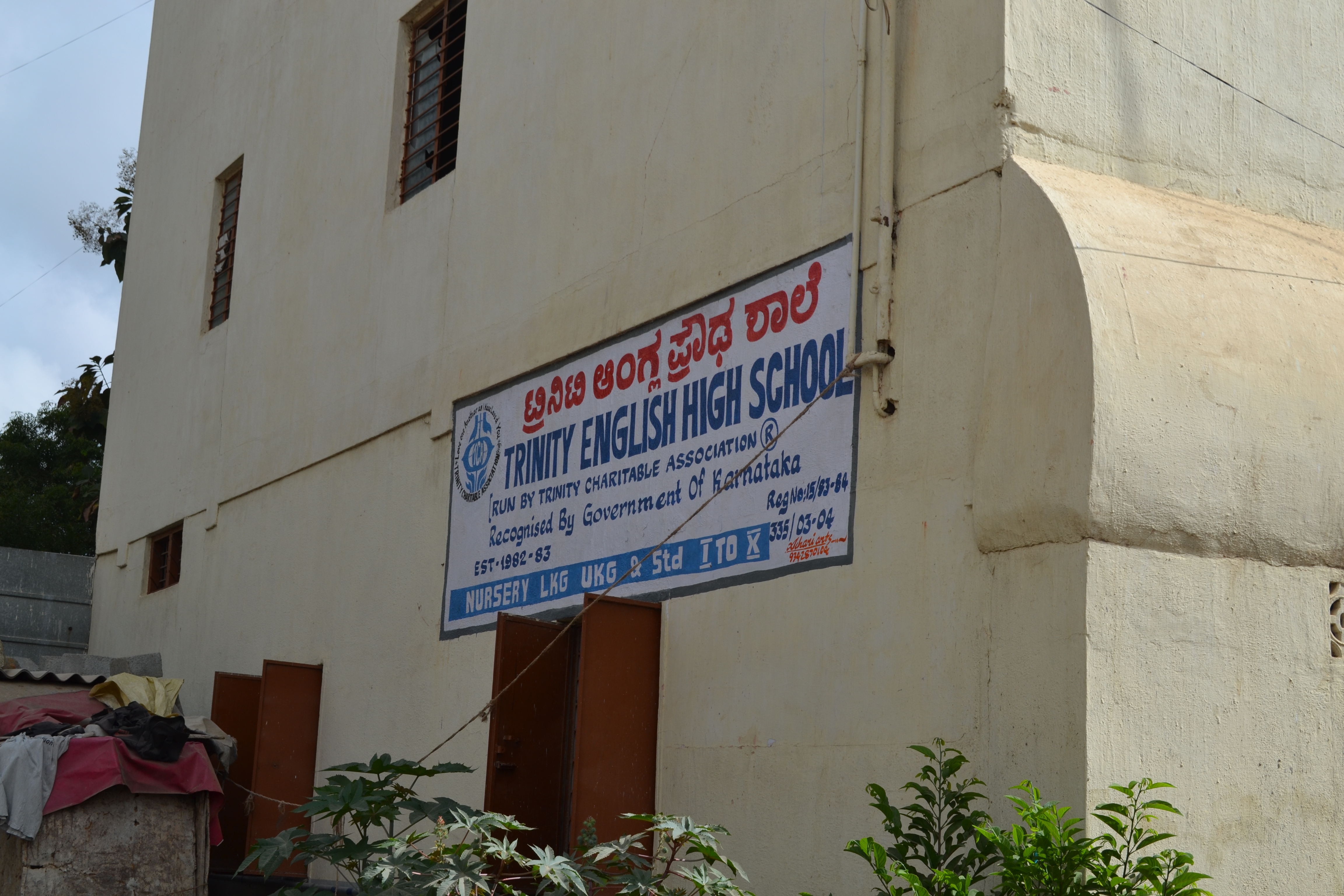 Mobile Library 2012 program by Singing Skylarks